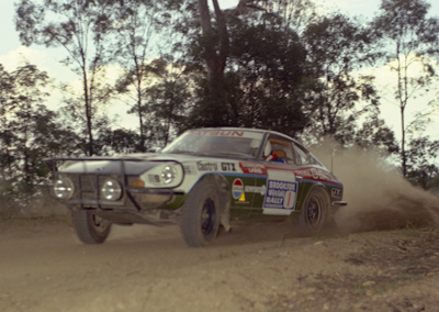 Ross Dunkerton and John Large in the Datsun 240Z at the Warana Rally 1974